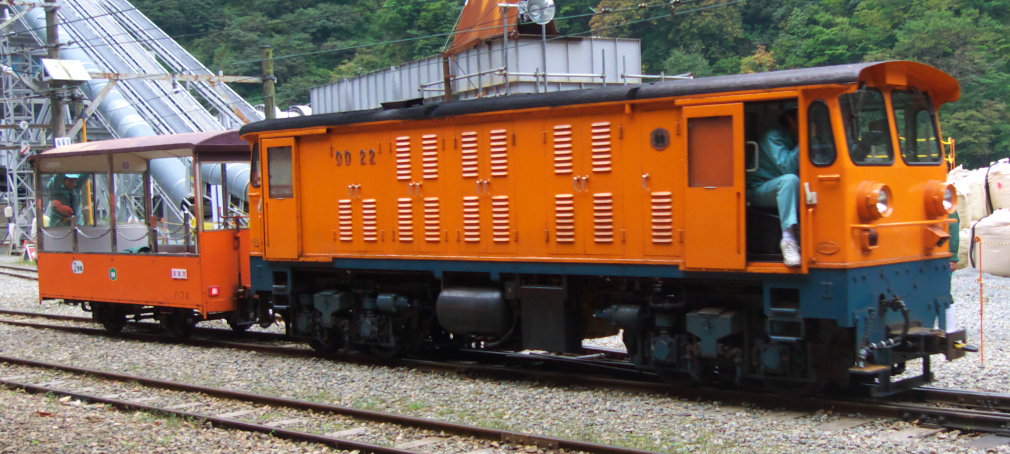 Kurobe Gorge Railway DD 22 diesel locomotive pulling a Ha series passenger coach at Nekomata Station